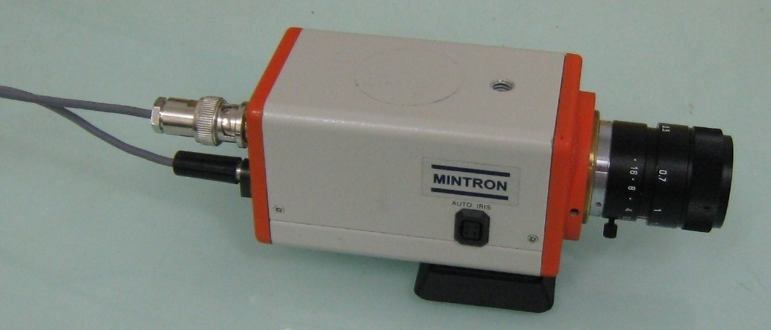 CCD video Mintron camera (length about 10 cm) attached to a PC (personal computer) and part of a video-extensometer of an universal testing machine.